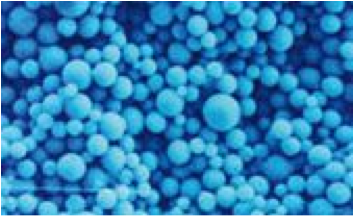 spheres of silica magnified a lot